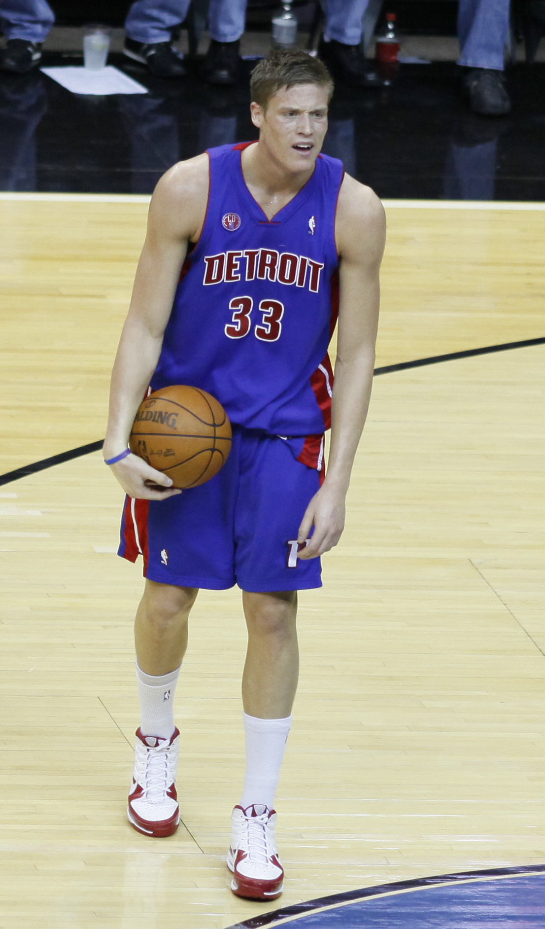 Washington Wizards v/s Detroit Pistons November 14, 2009 at Verizon Center in Washington, D.C.